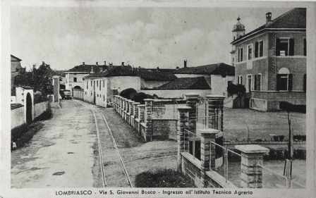 Lombriasco